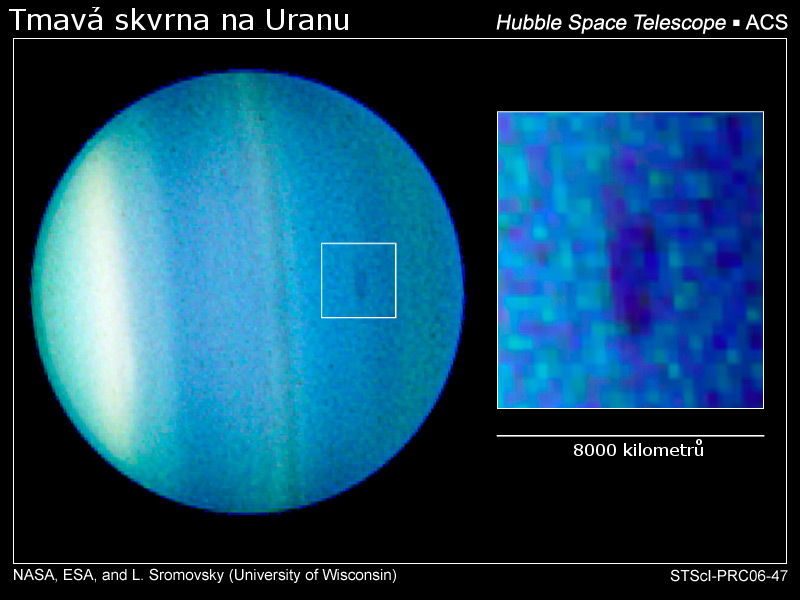 The first dark spot on Uranus ever observed. The image is obtained by ACS on HST in 2006. Image was downloaded from [1] (Credit: NASA, ESA, L. Sromovsky and P. Fry (University of Wisconsin), H. Hammel (Space Science Institute), and K. Rages (SETI Institute)).